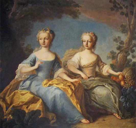 Portraits of Maria Theresa's daughters, Johanna Gabriela and Maria Josepha.